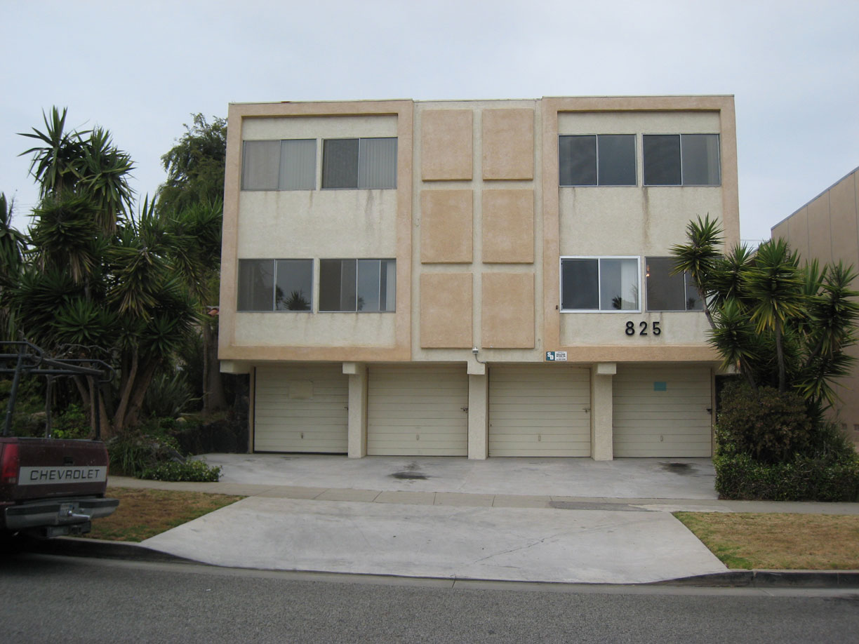 Example of "dingbat" apartment facade.